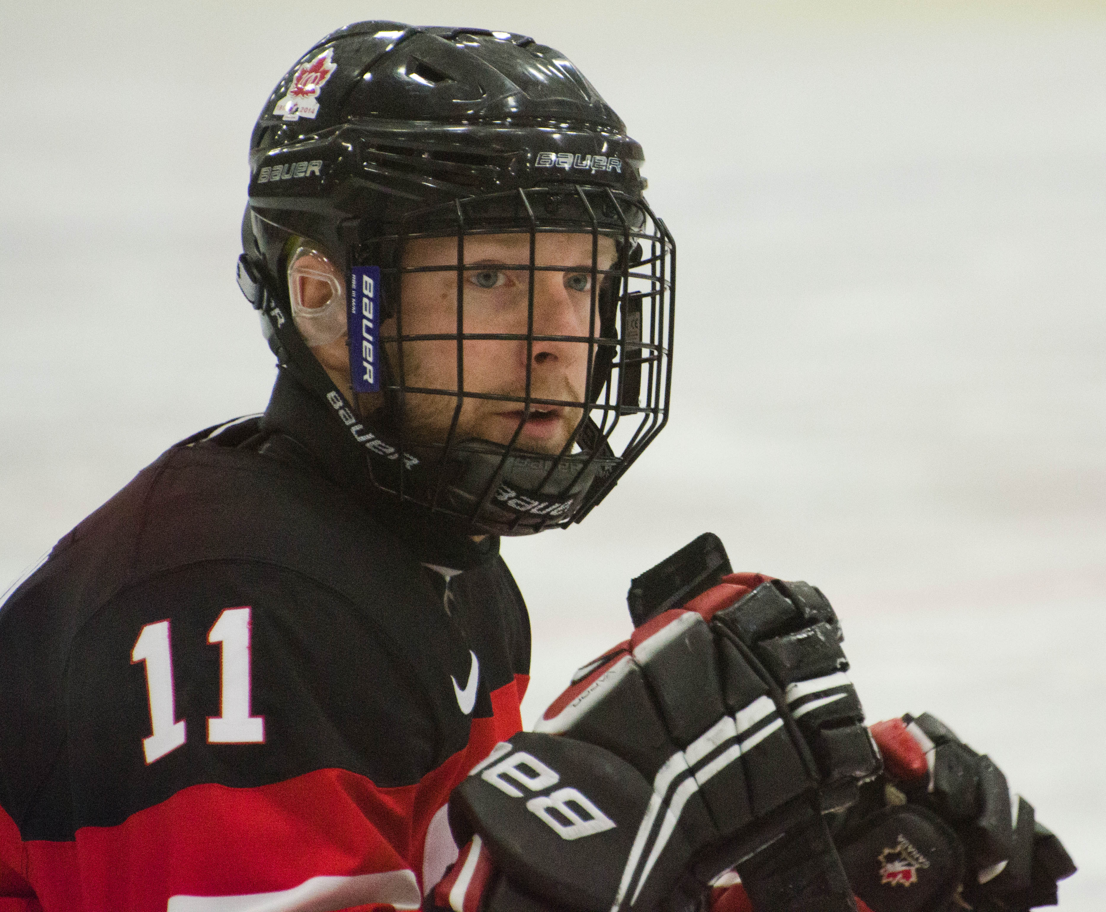 Adam Dixon